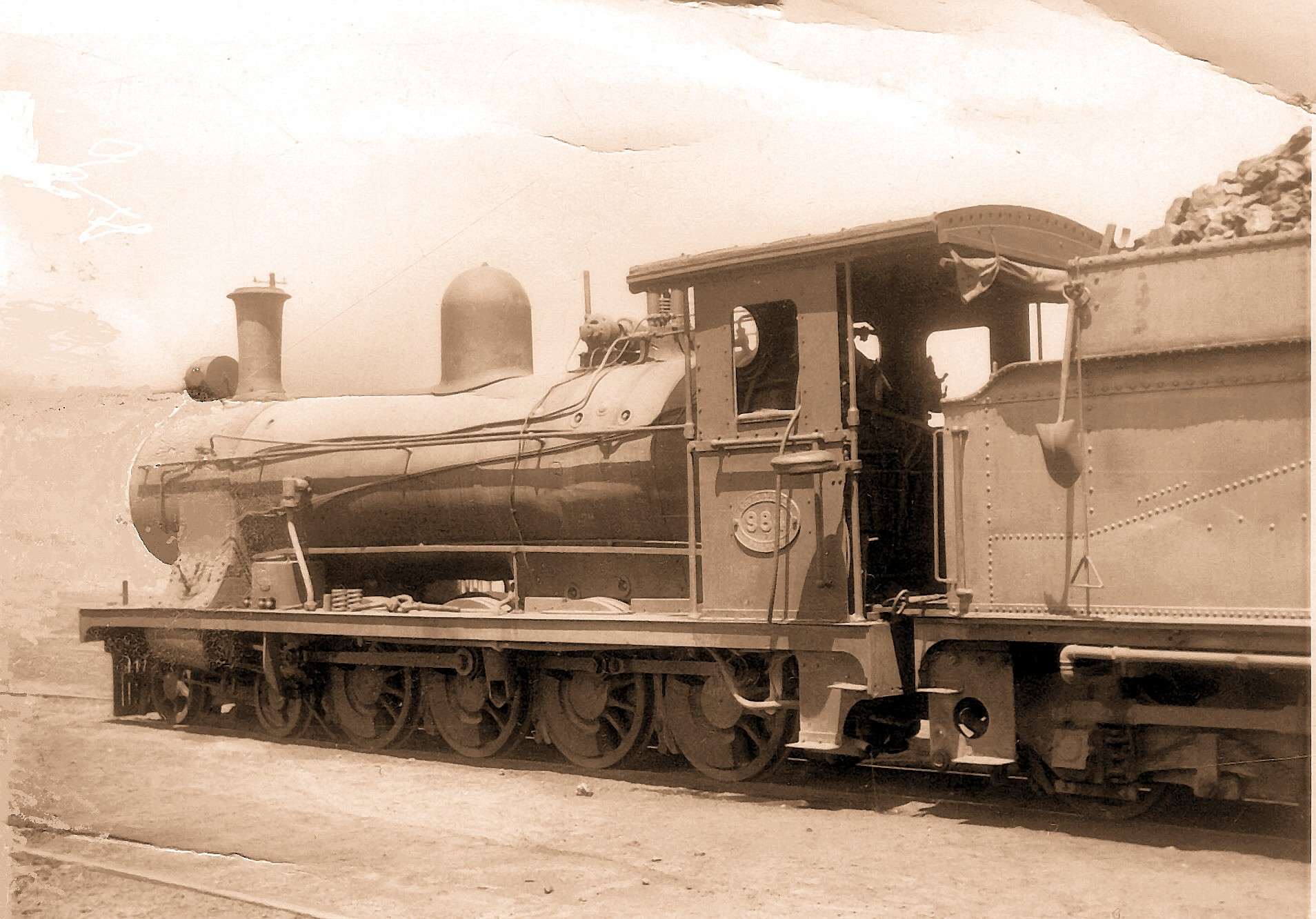 Class 7 984 (4-8-0) Location: Walvisbaai, South West Africa. A scan from a small b/w print given to me by Mike Grice here in Halifax who worked in Tsumeb from 1955-59. The Class 7 was about to pull their train from Walvis Bay to Usakos.